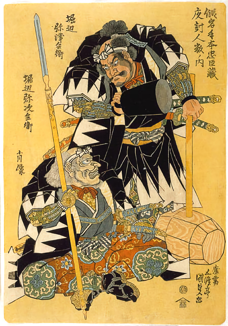 Print by Utagawa Kunisada (1786-1865) of Father and Son Members of the Forty-Seven Rônin from Chûshingura, the Treasury of Loyal Retainers: The People Involved in the Night Attack (Kanadehon chûshingura: youchi ninzû no uchi), ca. 1845-1860. Color woodblock print, ôban, original c. 15 in. x 10 in. Pictured are Horibe Yahei and his adopted son, Horibe Yasubei, in black-and-white patterned firefighter's disguises and bearing a pike and a wooden sledgehammer.